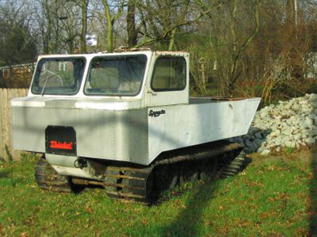 Thiokol Model 1300 Swamp Spryte amphibious all terrain vehicle based on the highly successful Thiokol Spryte Snowcat. This example is unrestored. The Swamp Spryte variant had an open back to reduce weight and an enclosed cabin was not available on the Swamp Spryte.